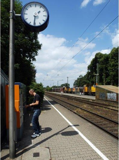 Railstation Empel (Rees)